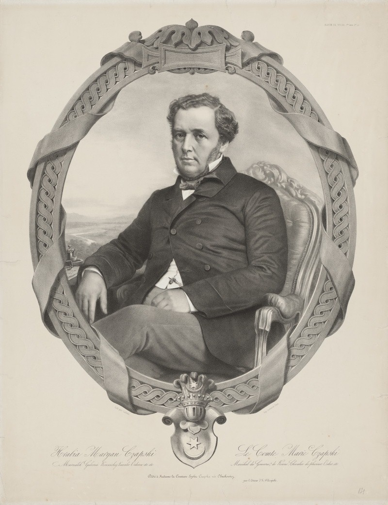 Adolf Lafoss, portrait of Earl Marian Chapski, 1857. Litography, National Museum of Lithuania.